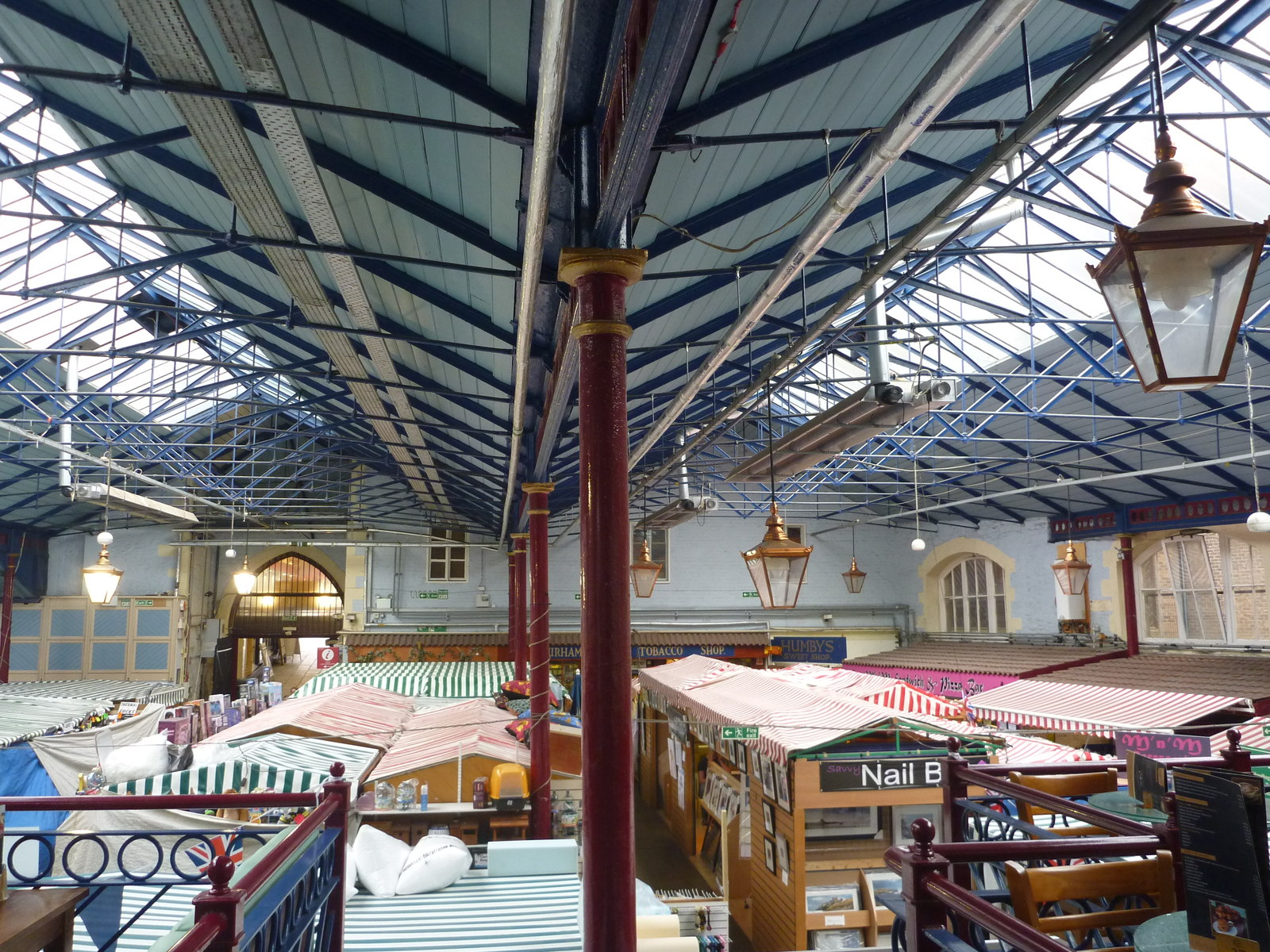 Durham Townscape : Durham Indoor Market